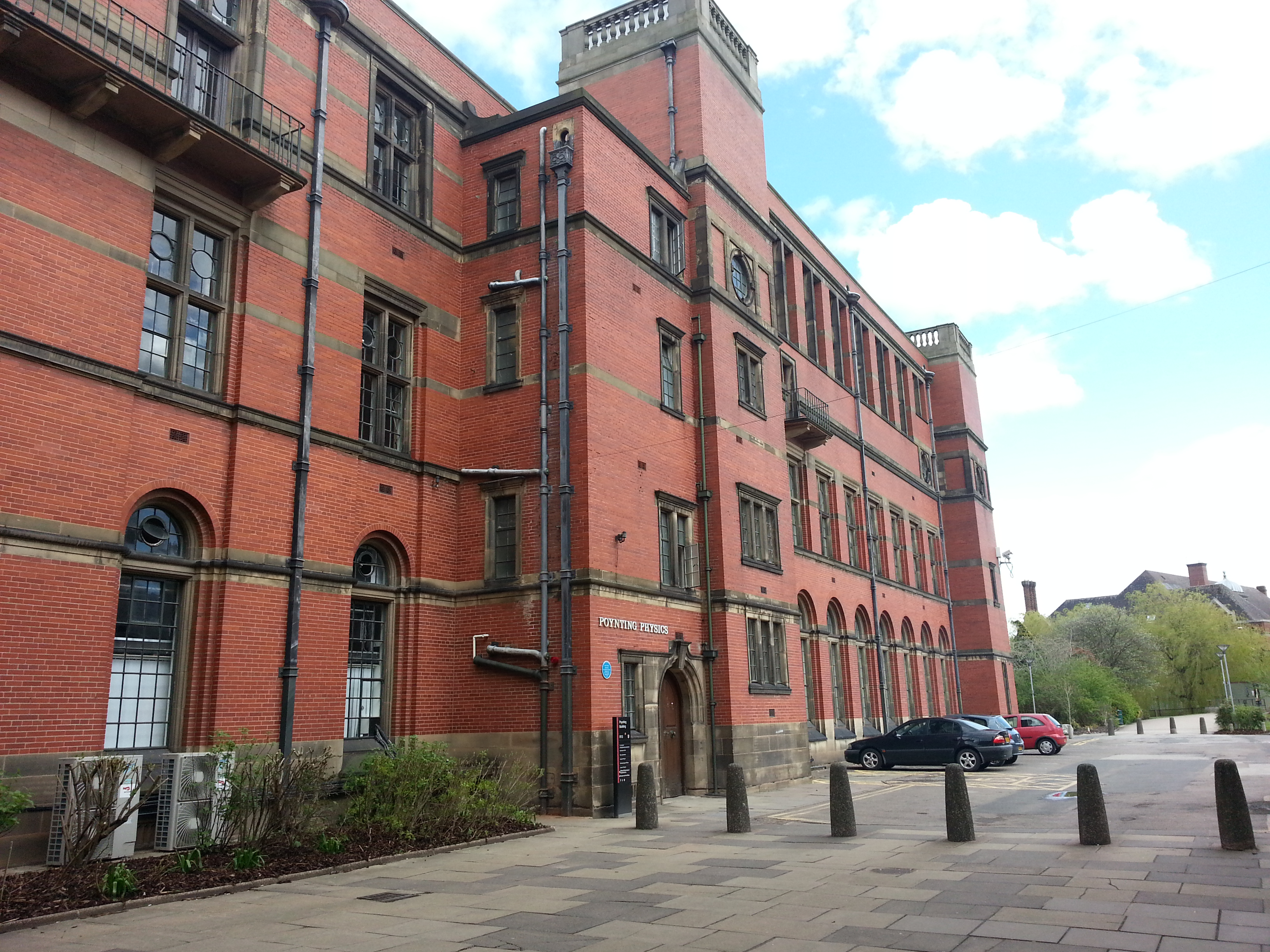 University of Birmingham, England